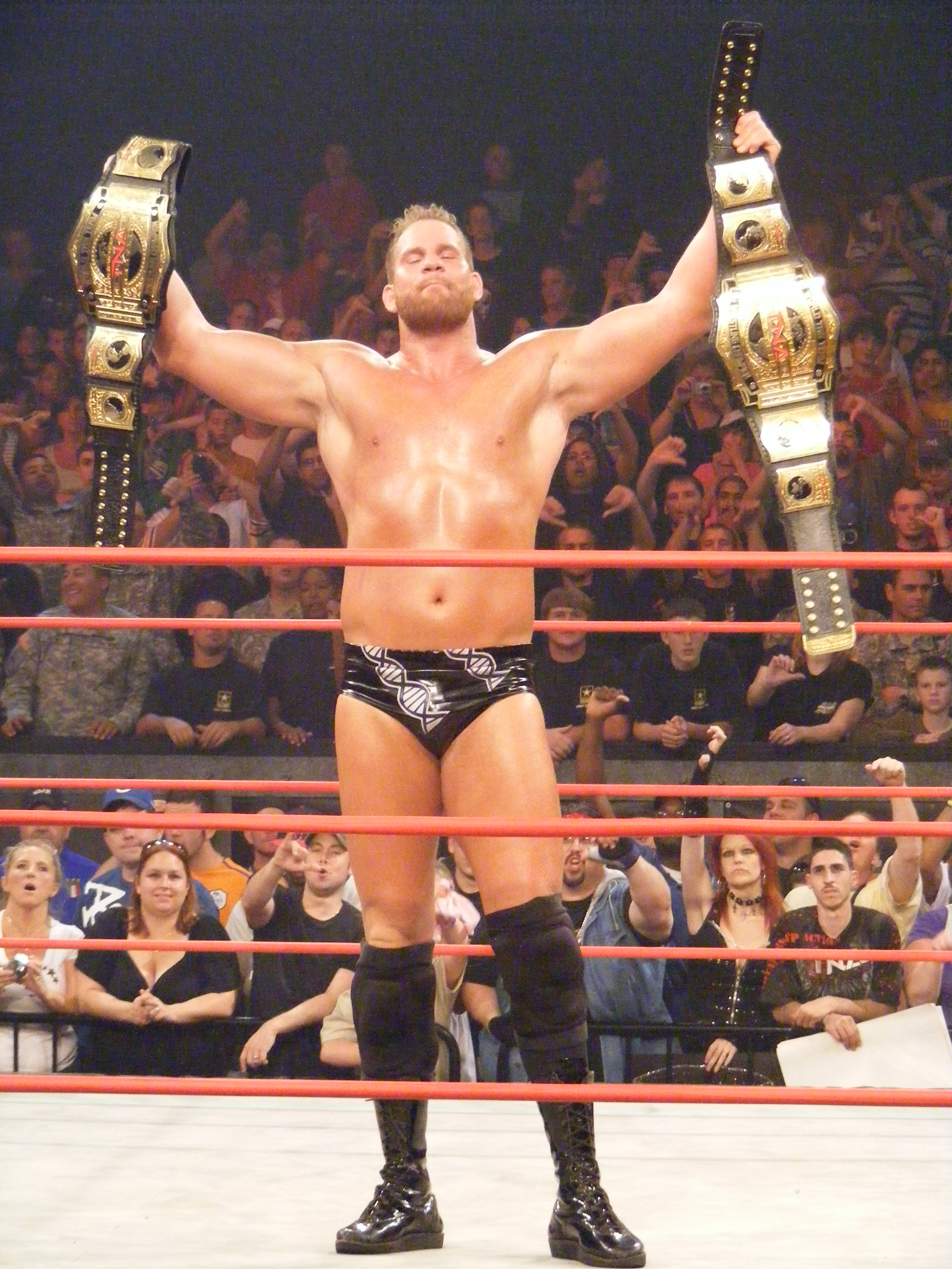 Matt Morgan poses with both TNA World Tag Team Championship belts after a successful defense of the title at a TNA Impact Taping